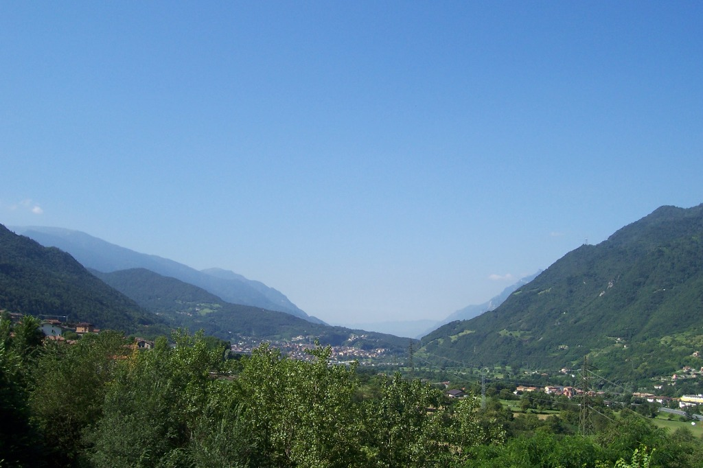 Valcamonica from Braone to south